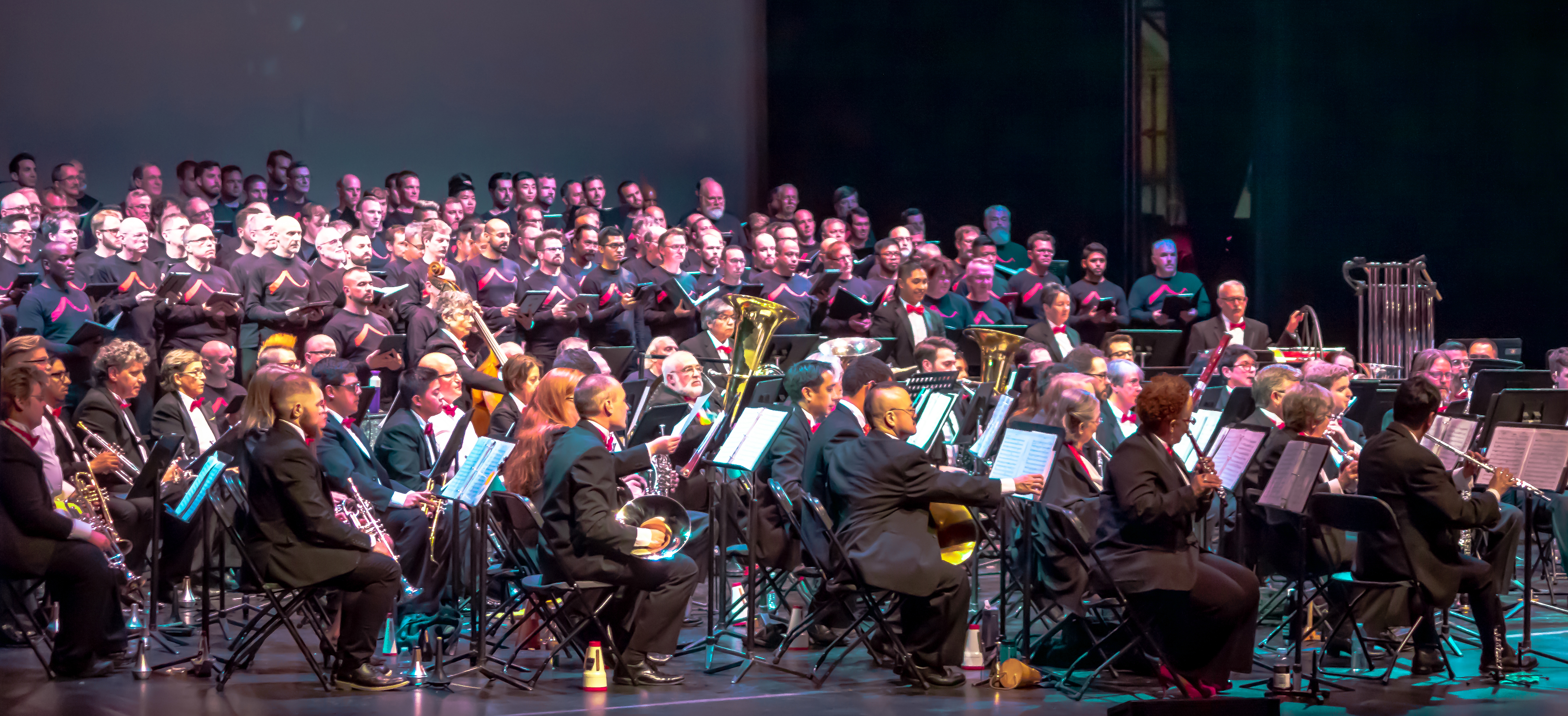 San Francisco Lesbian / Gay Freedom Concert Band plays at the Palace of Fine Arts for their 40th Anniversary.